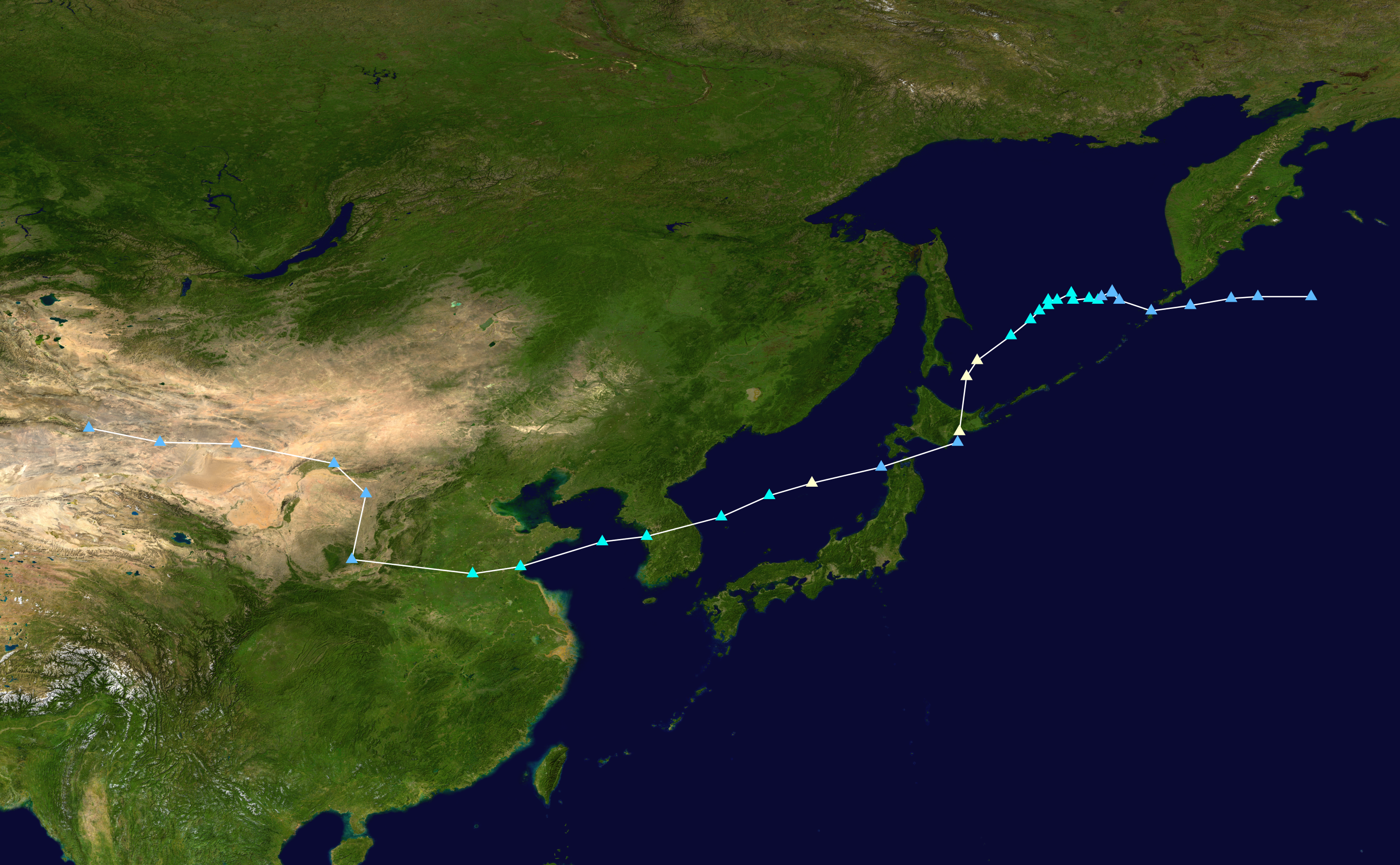 Track map of April 2012 East Asian cyclone of the East Asian-Northwest Pacific cyclones. The points show the location of the storm at 6-hour intervals. The colour represents the storm's maximum sustained wind speeds as classified in the Saffir–Simpson scale (see below), and the shape of the data points represent the nature of the storm, according to the legend below. Saffir–Simpson scale Tropical depression≤38 mph≤62 km/h Category 3111–129 mph178–208 km/h Tropical storm39–73 mph63–118 km/h Category 4130–156 mph209–251 km/h Category 174–95 mph119–153 km/h Category 5≥157 mph≥252 km/h Category 296–110 mph154–177 km/h Unknown Storm typeTropical cycloneSubtropical cycloneExtratropical cyclone / Remnant low / Tropical disturbance